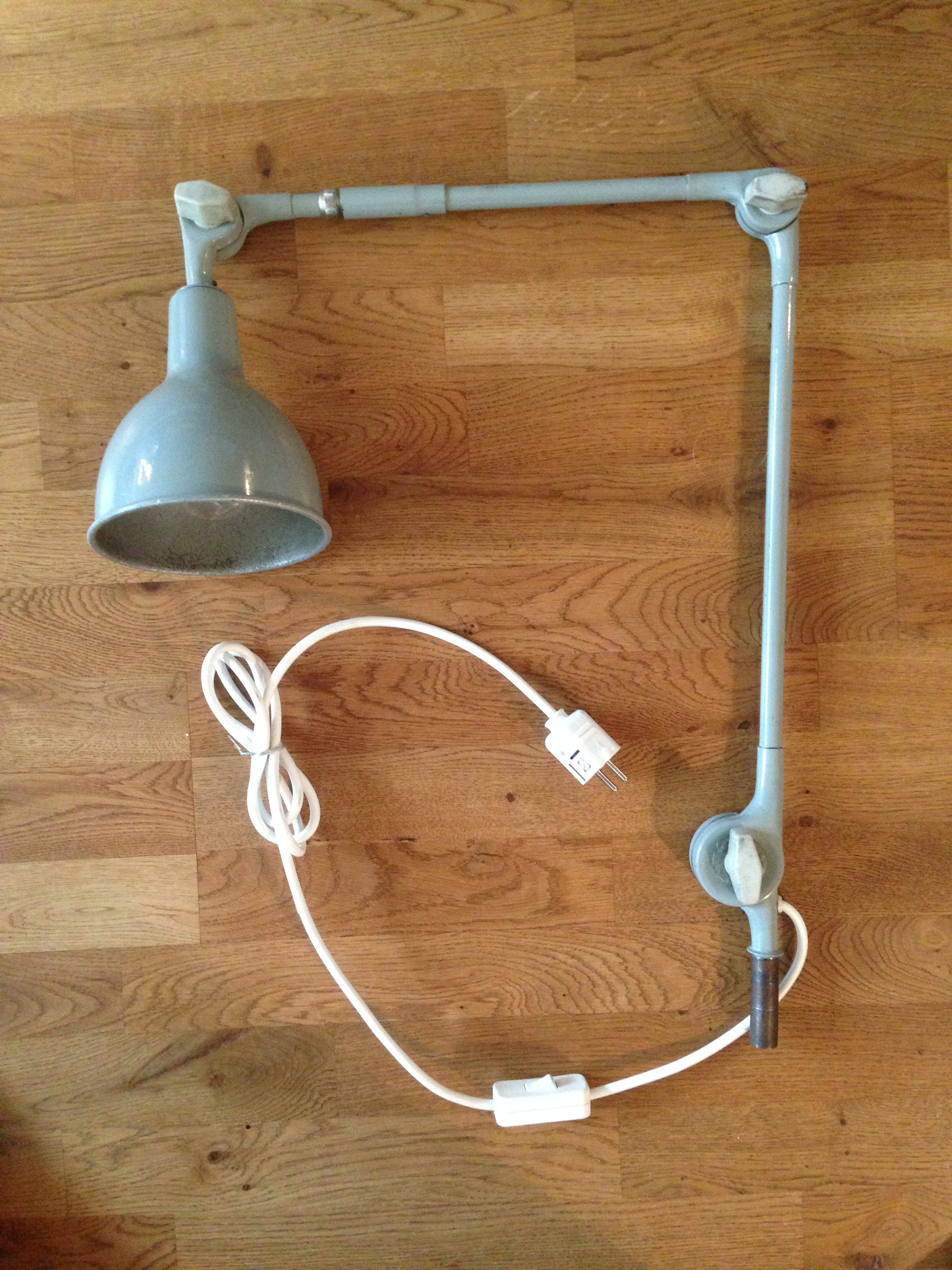 Picture of swedish made industrial lamp PeFeGe (E. G. Eriksson Mekaniska Verkstad AB). Unknown model with recently repaired cable.